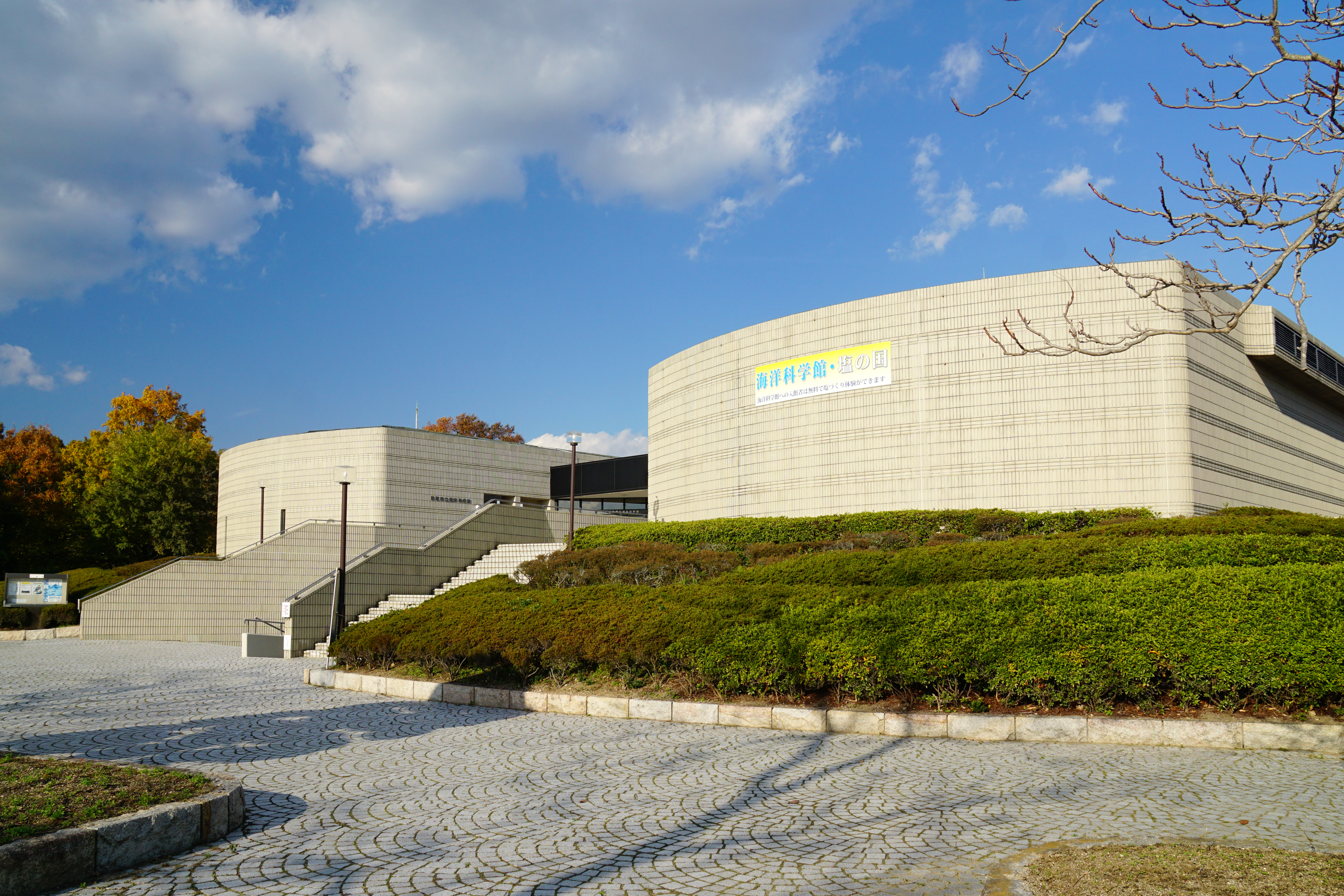 Ako Marine Science Museum in Ako, Hyogo prefecture, Japan.